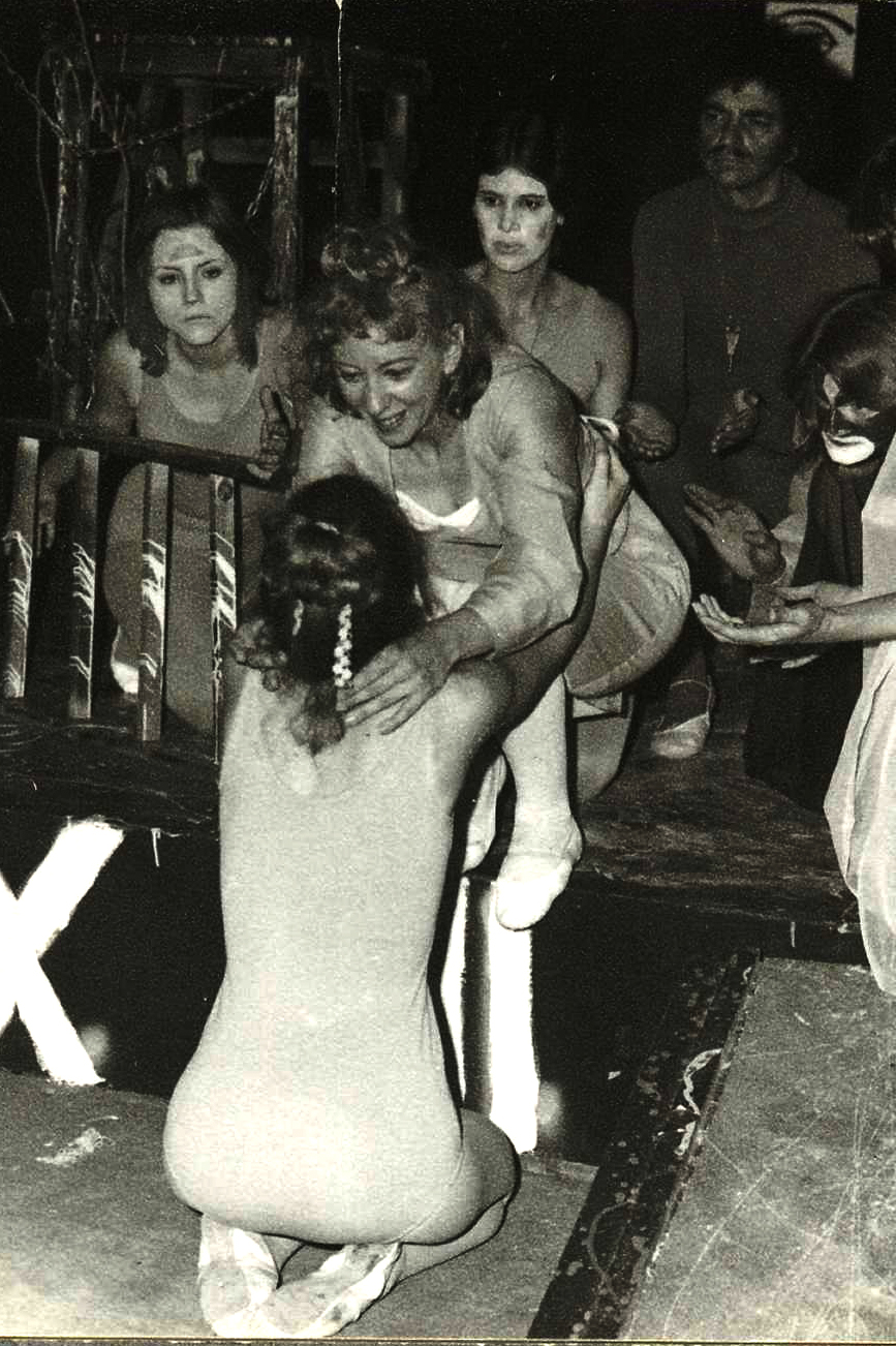 Judith Rowe in "Inconnue," written and directed by Hugh M. Jones for the Corner Theatre ETC, Baltimore, 1973.